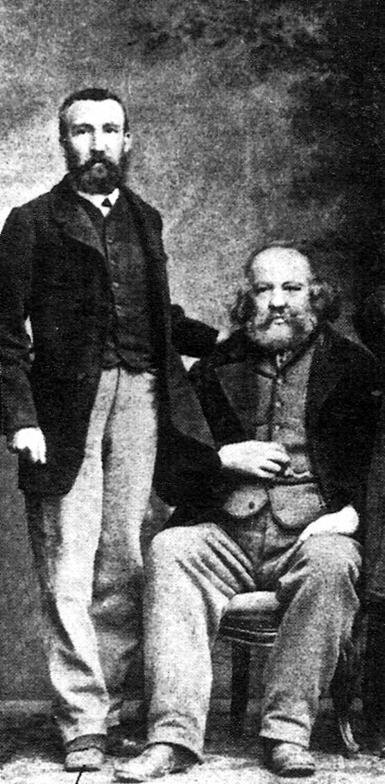 Mikhail Bakunin and Charles Perron on the Basel congress of the International Workingmen's Association in 1869.